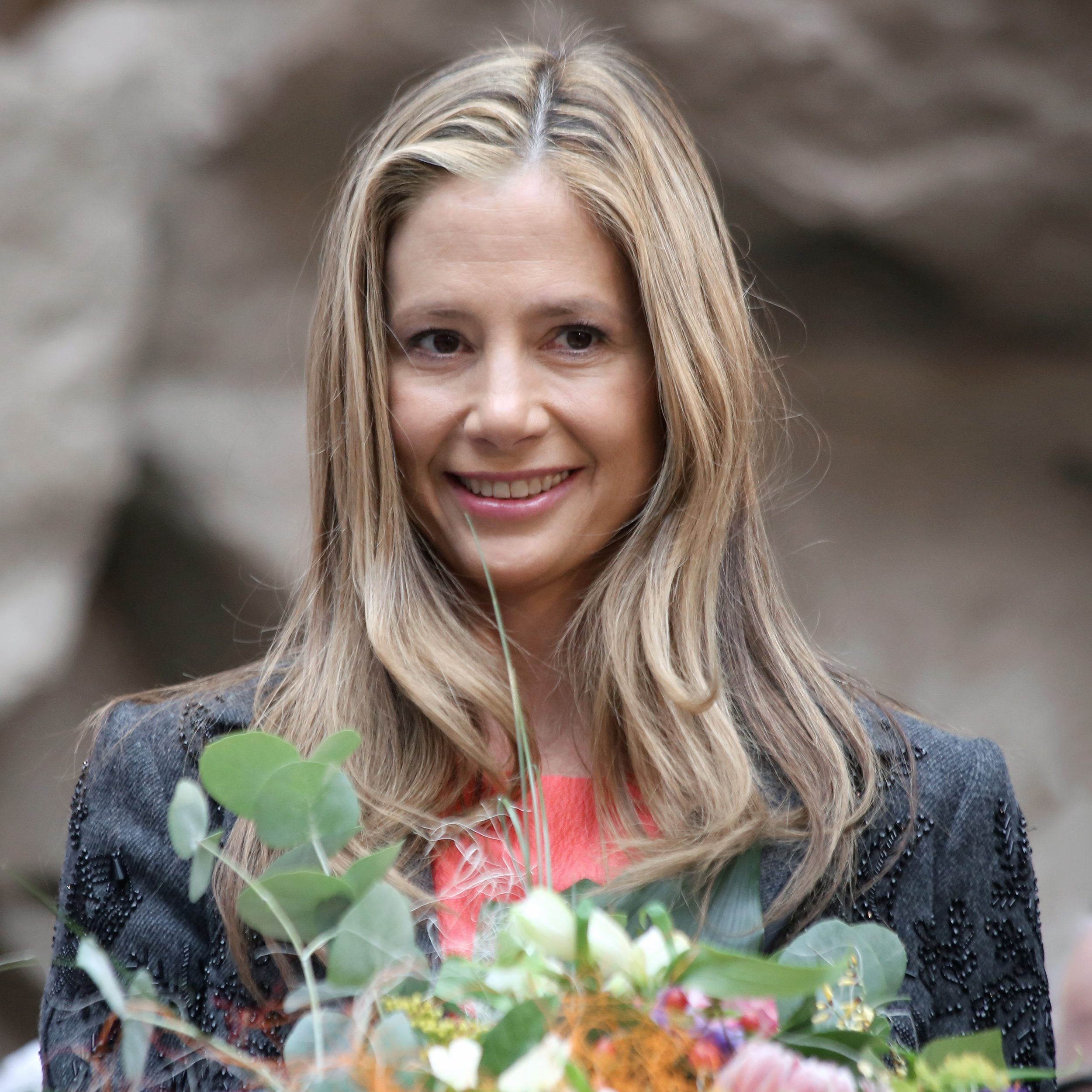 Mira Sorvino, guest of Richard Lugner for the Vienna Opera Ball 2013, at a signature session at Lugner-City in Vienna,Austria).